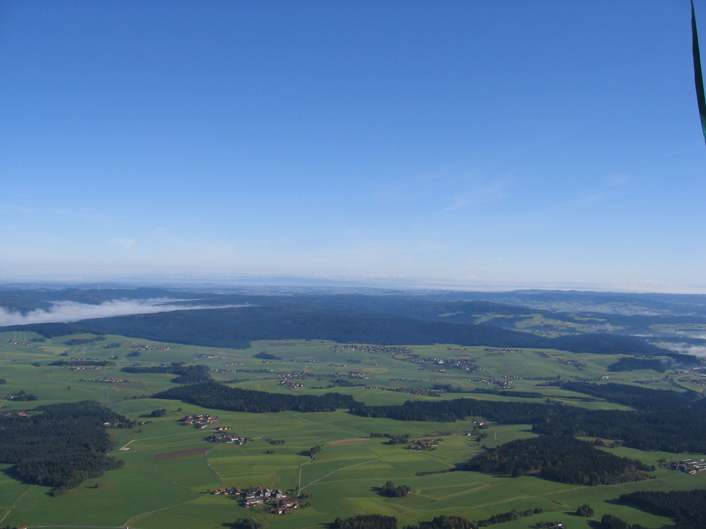 Kobernaußer forest in Upper Austria